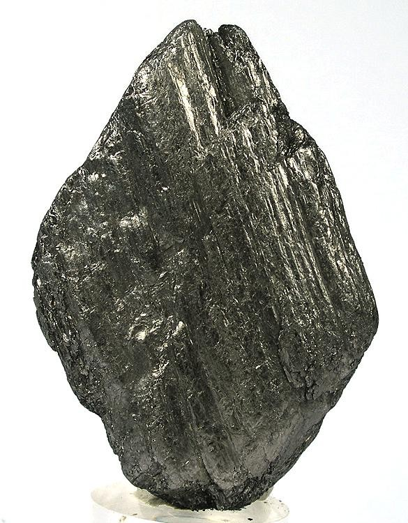 Graphite Locality: Old Beneis Farm, Marlborough, Cheshire County, New Hampshire, USA (Locality at ) Size: 5.6 x 3.8 x 1.8 cm. A large, solid mass of elemental carbon or graphite with the super, greasy/waxy feel and typical, sheet-like form. This splendent, steel-gray specimen is from a very uncommon New Hampshire locality - the old Beneis Farm, Marlborough, Cheshire County. Ex. Bob Whitmore Collection, a noted New England collector and field collector.